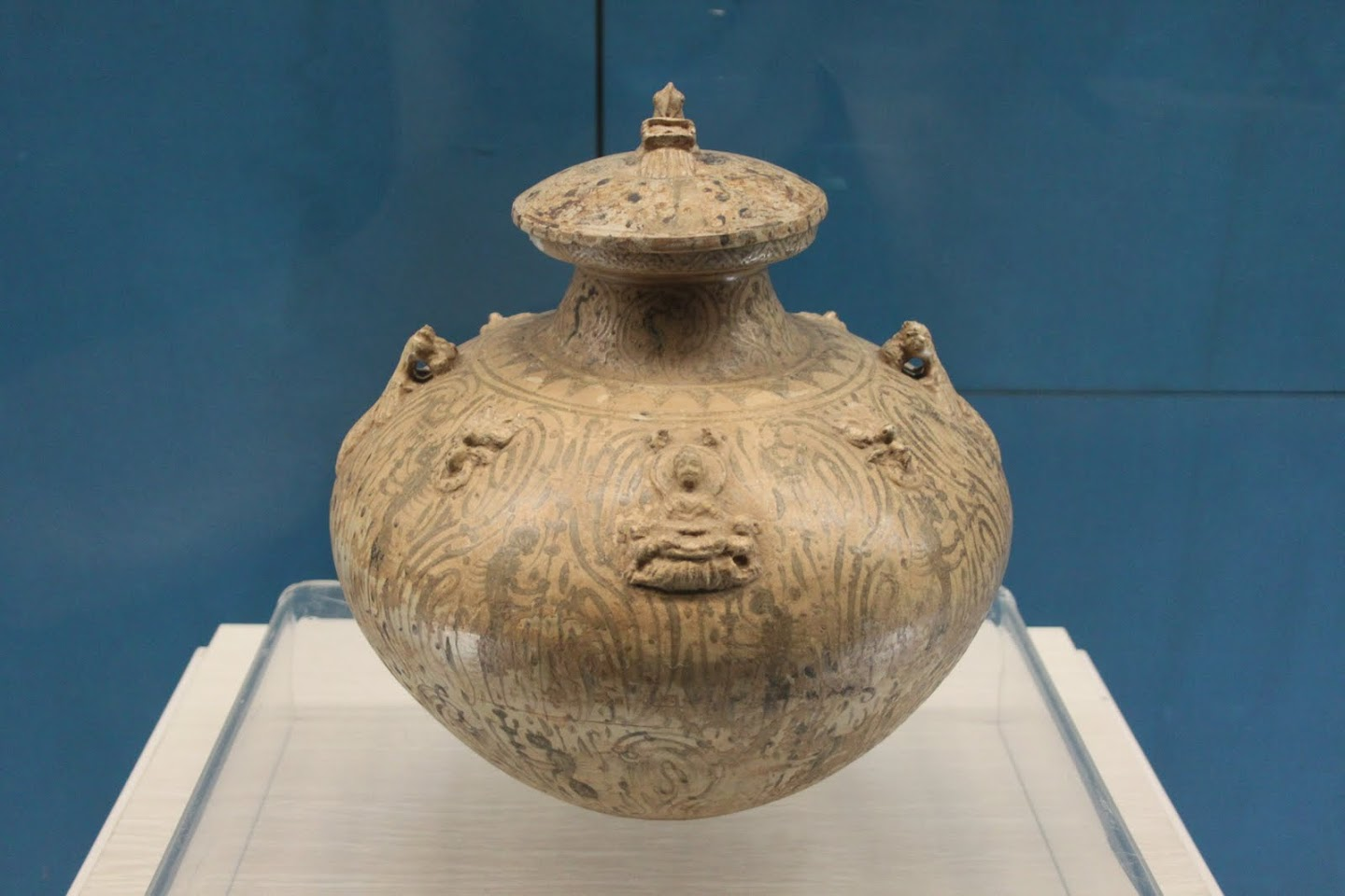 Celadon pot (hu) with dish-shaped mouth and underglaze decoration. Three Kingdoms or Western Jin dynasty. H. 32.1 cm. Excavated from a tomb in Changgang village, Yuhuataixiang, Nanjing city. Collection of Nanjing city Museum or Henan Provincial Museum